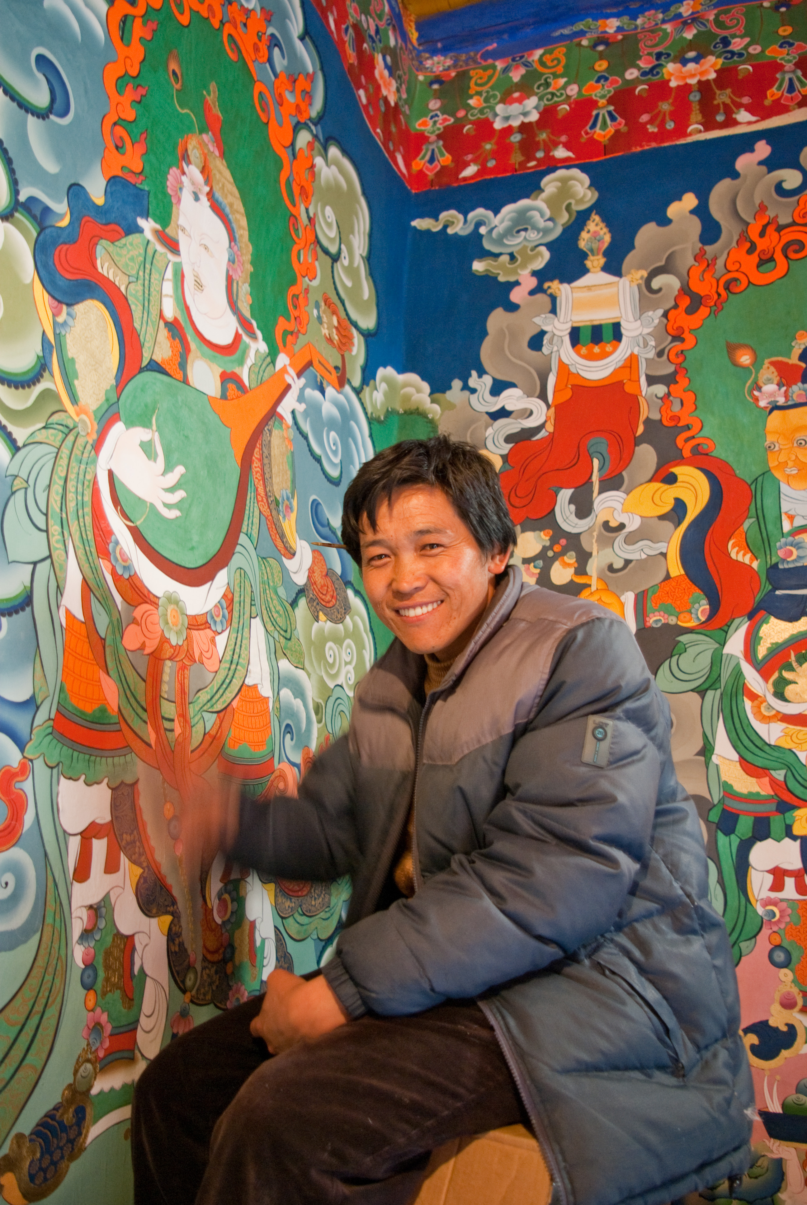 Reting monastery